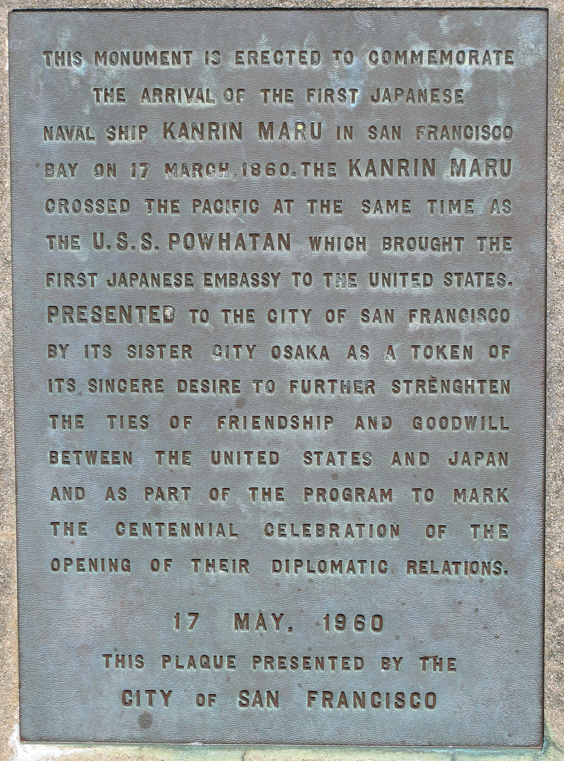 This plaque describes the Kanrin Maru Monument (see next and previous photo). It reads: This monument is erected to commemorate the arrival of the first Japanese naval ship KANRIN MARU in San Francisco Bay on 17 March 1860. The KANRIN MARU crossed the Pacific at the same time as the U.S.S. POWHATAN which brought the first Japanese embassy to the United States. PRESENTED to the City of San Francisco by its sister city Osaka as a token of its sincere desire to further strenghten the ties of friendship and goodwill between the United States and Japan and as part of the program to mark the centennial celebration of the opening of their diplomatic relations. 17 May, 1960 This plaque presented by the CITY of SAN FRANCISCO